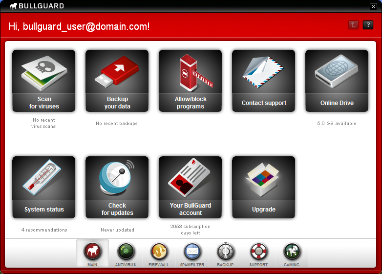 Illustrate article and identify the subject of the image that is critically discussed by the article.